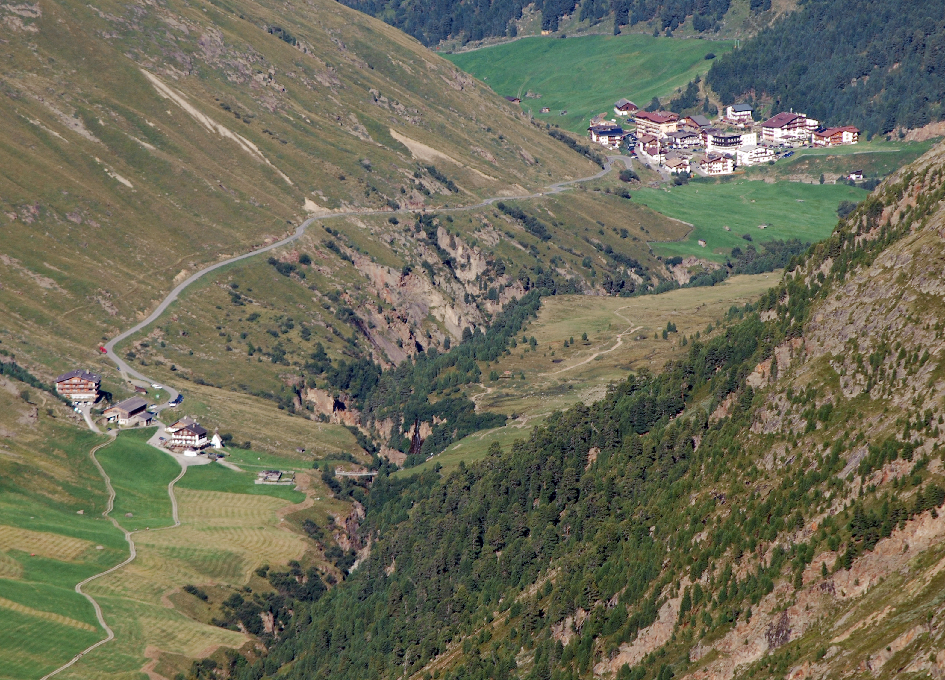 Rofen and Vent from W